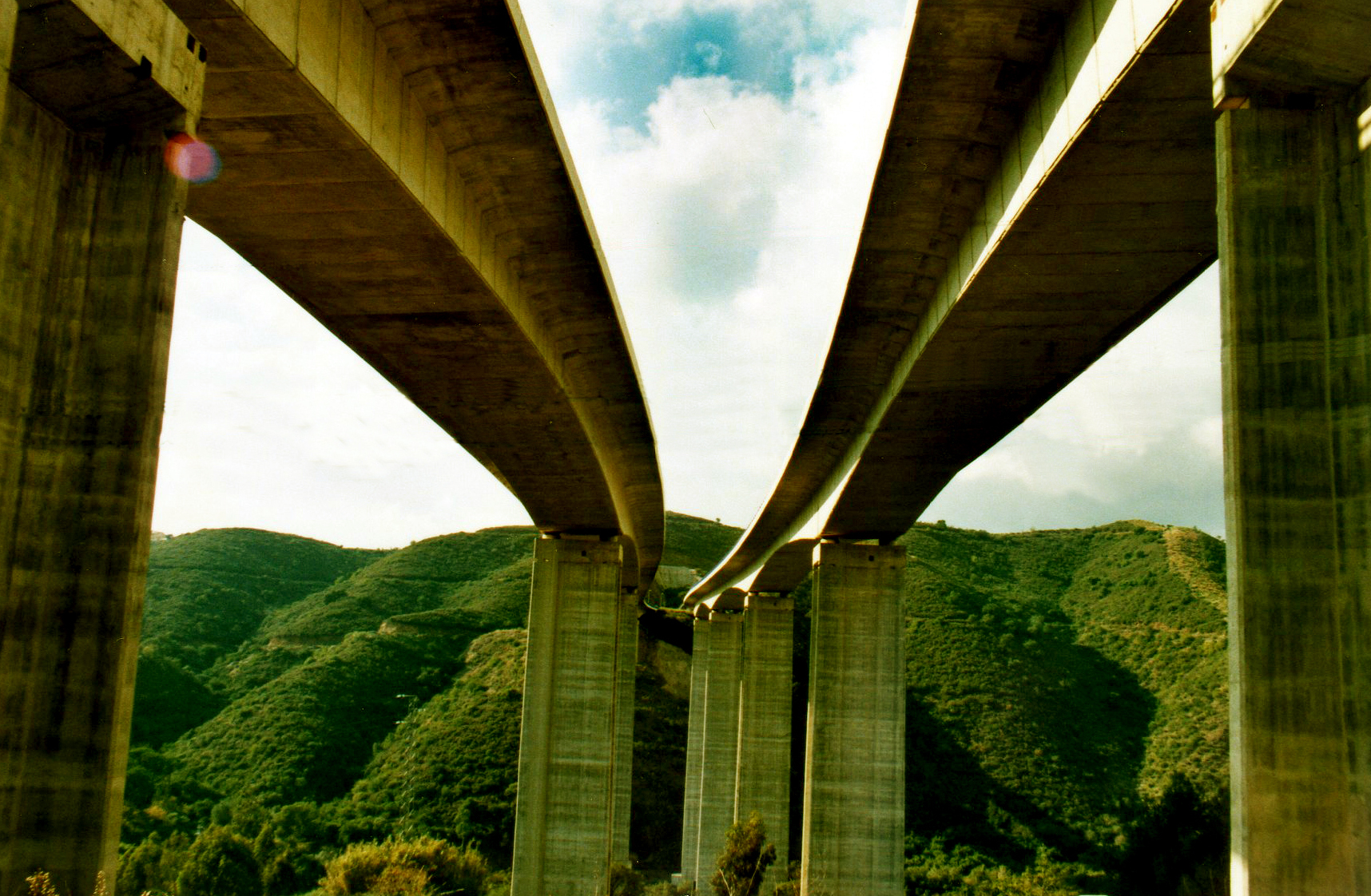 Autopista del Mediterrano (AP7): Bridge near Marbella, El Angel (Spain)